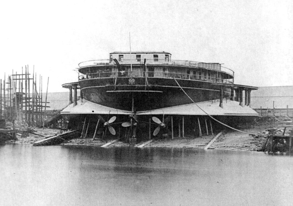 The Livadia raised on a slip. I'm not sure if it's during construction (Scotland) or later service (Black Sea), more like the latter.